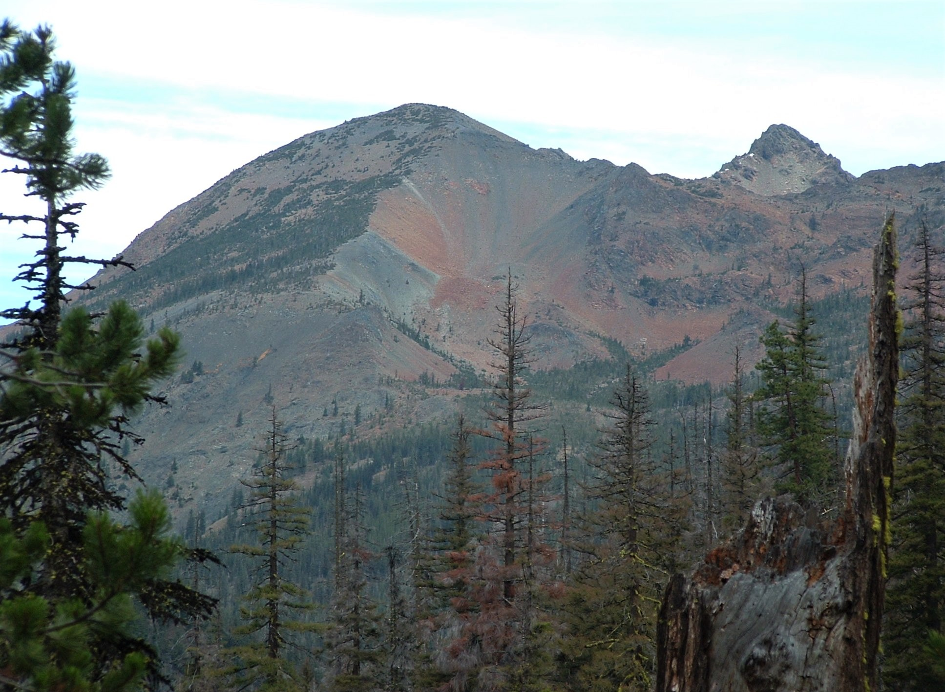 Fortune Peak in Wenatchee Mountains